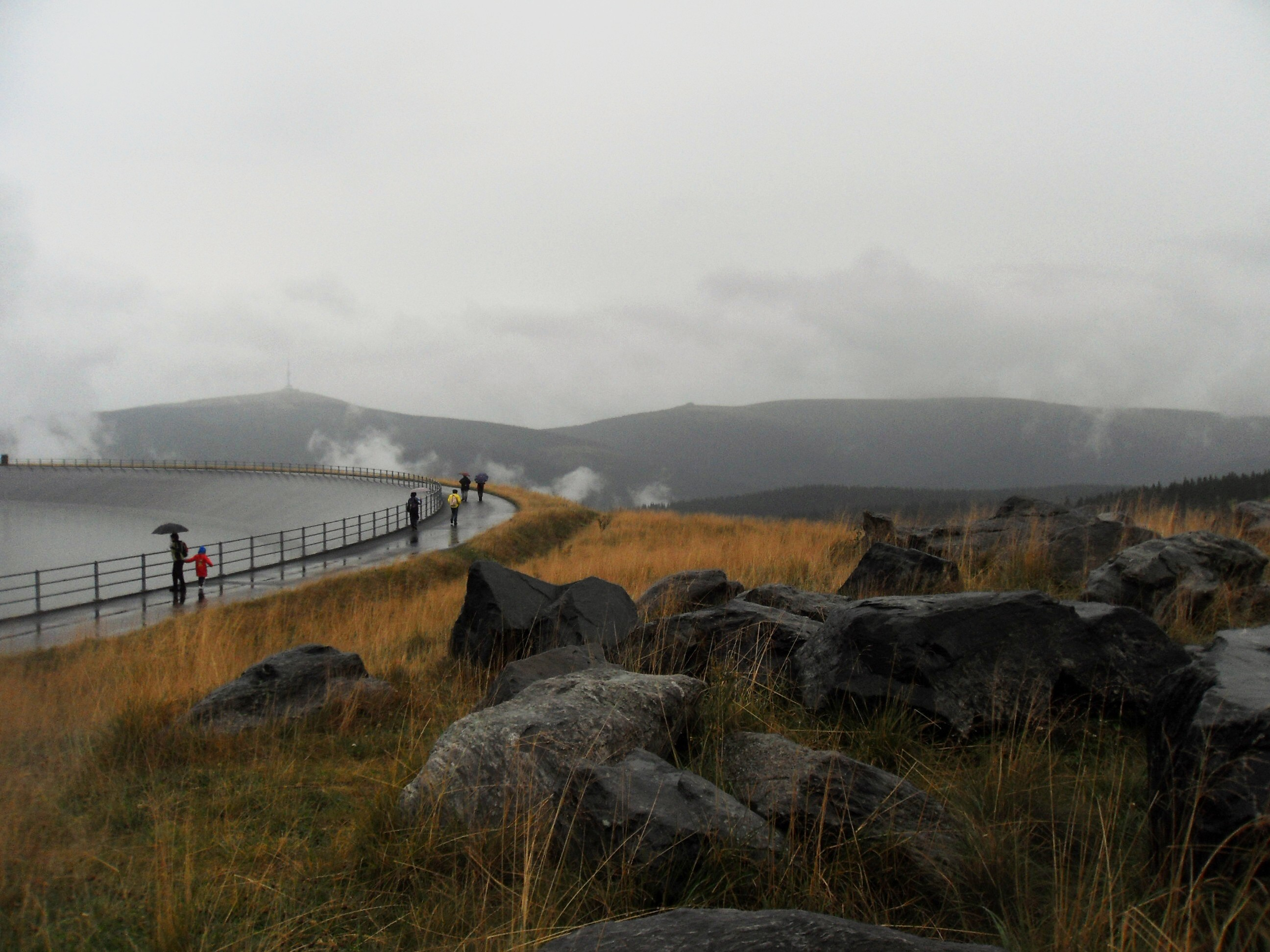 Upper reservoir of Dlouhé stráně Hydro Power Plant with Dlouhé stráně (1353 m), Rejhotice, Loučná nad Desnou, Šumperk district, Czech Republic